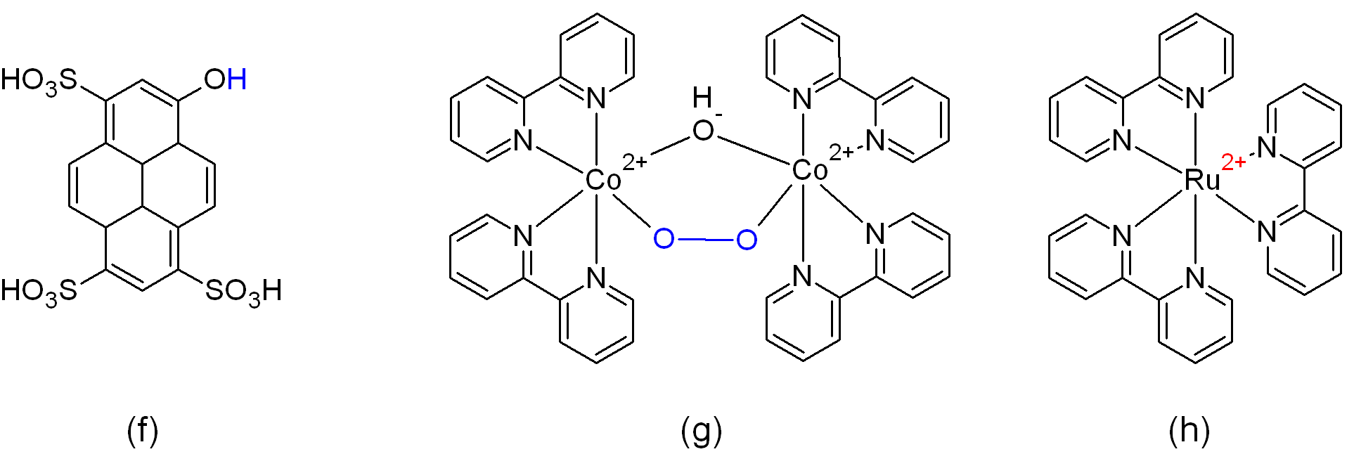 Special caged compounds